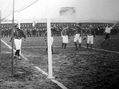 Rosario Athletic celebrating a goal scored to CURCC, at the 1904 Tie Cup final played at Flores Polo Ground of Buenos Aires.